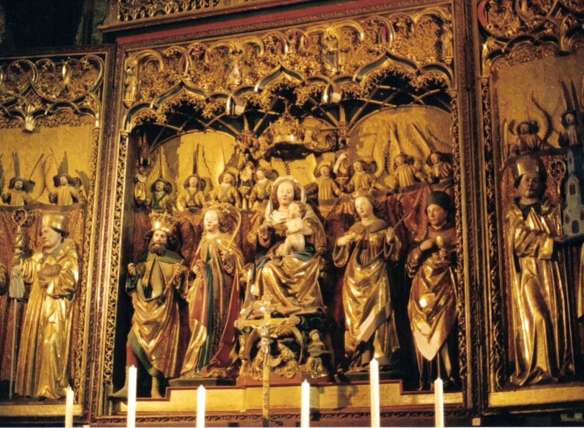 Altarpiece from Chur Cathedral Switzerland, in the International Gothic style